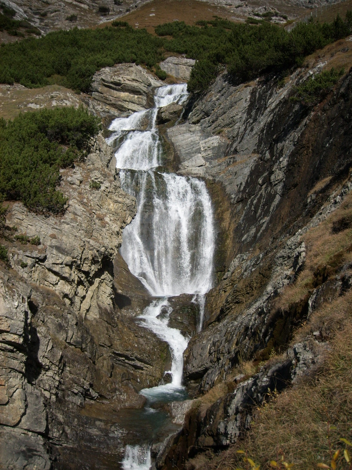 Falls in Stelvio Nationalpark